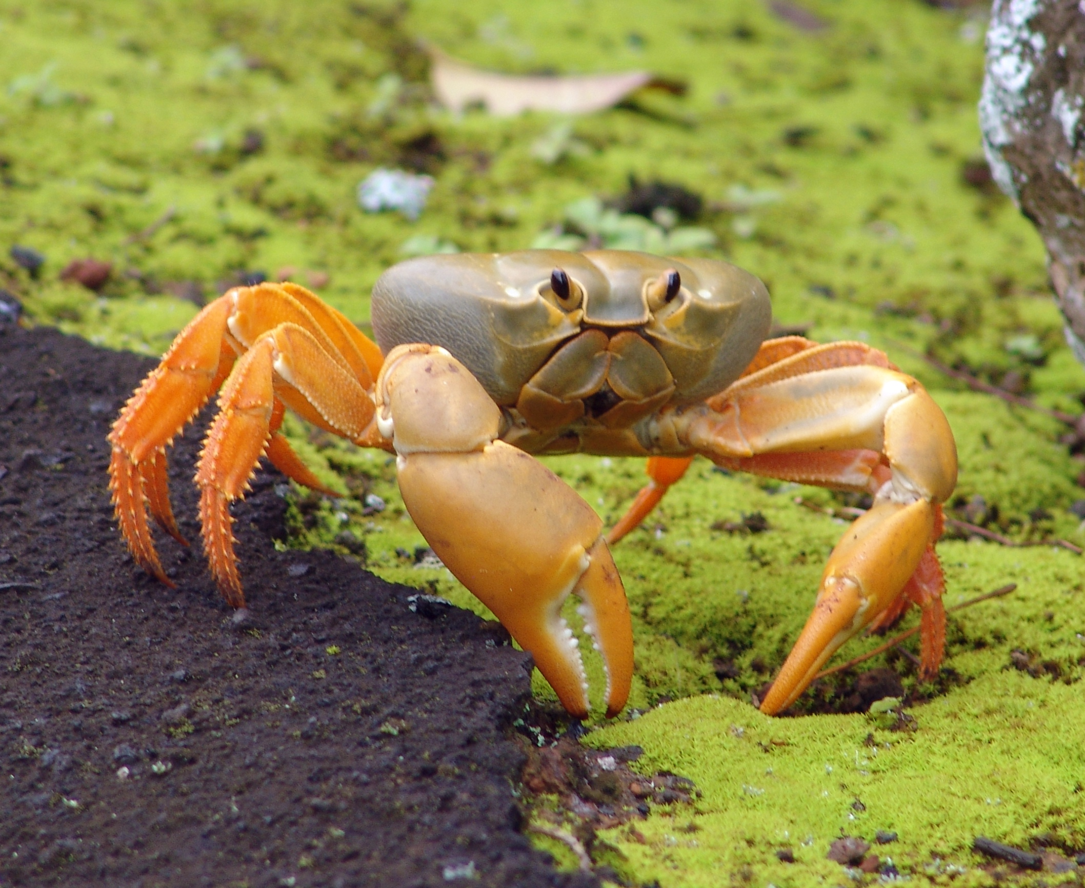 Yellow morph of the land crab Johngarthia lagostoma (= Gecarcinus lagostoma) on Ascension Island